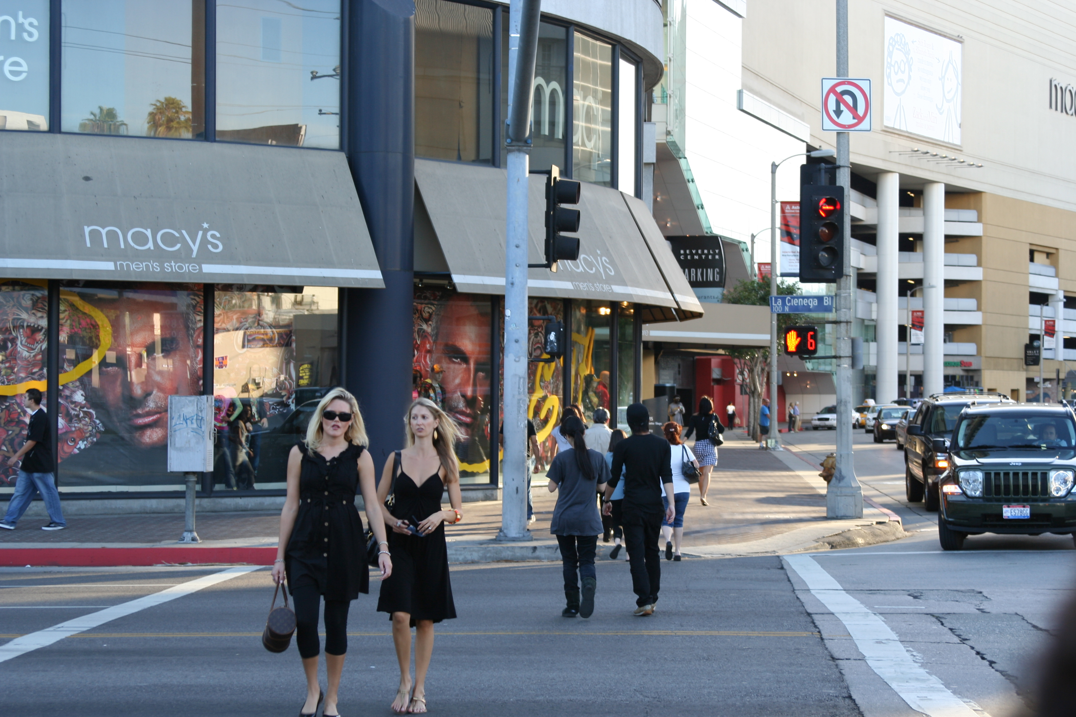 Corner of the Beverly Center on La Cienega and Beverly Boulevard. By ChildofMidnight, please attribute and give thanks.